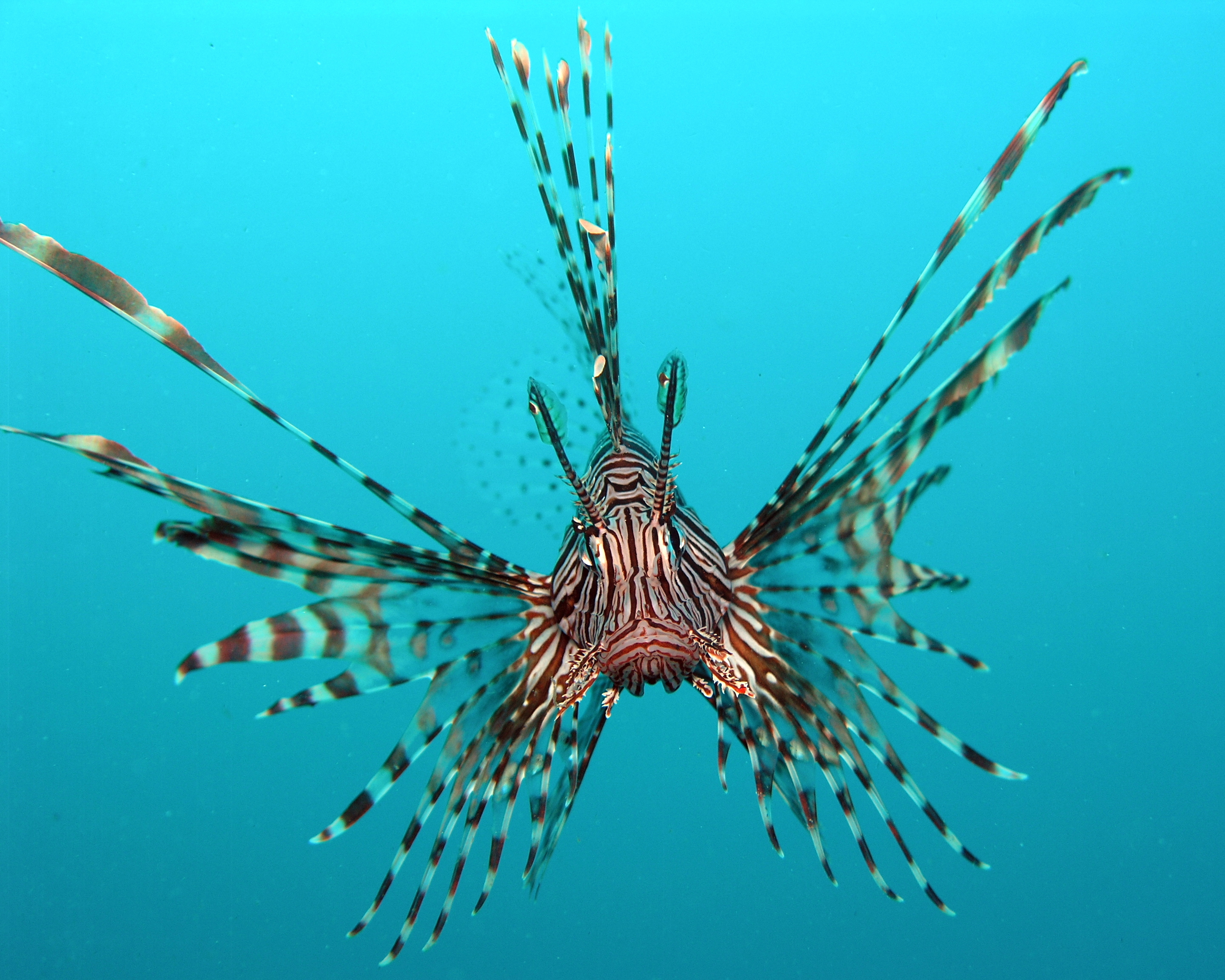 Pterois volitans, also known as red or common lionfish. Picture taken at Tasik Ria, Manadao, Indonesia.